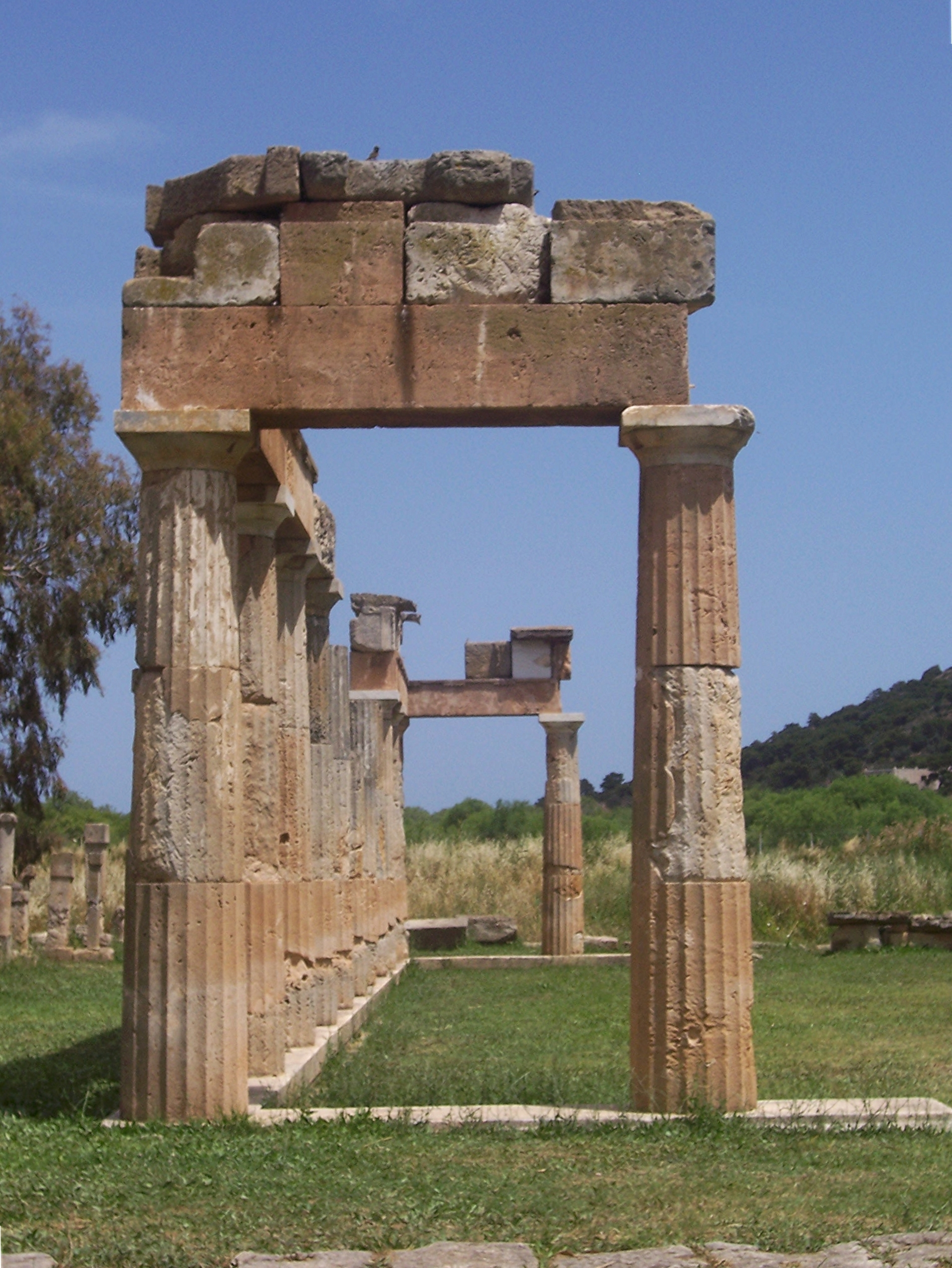 The first known temple at the sanctuary - dating to the late 6th century BCE - rests on a low rock spur south of the river and is aligned toward the east on a foundation measuring c. 11 by 20 m. Little is preserved beyond partial lower courses and cuttings in the bedrock for the same. There are a few remains of the architecture that allow a certain identification of the temple as being of the Doric order. The Persians destroyed the sanctuary structures in 480 BCE and took the cult statue back to Susa. The temple was reconstructed in the 420s BCE. Although the temple is poorly preserved, it can be reconstructed to have had four columns in the cella and an adyton at the rear of the cella. The presence of an adyton is asserted for the temple of Artemis at Loutsa (Artemida) 6.1 km to the north and the temple of Artemis at Aulis 67 km northwest. This feature may also be shared by the 6th century BCE Temple of Aphaea on Aigina. Schwandner links the shared feature of an adyton with a common, regional practice in the cult of Artemis. There is disagreement on the question of the temple having been hexastyle-prostyle (6 columns across the front only) or distyle in antis (2 columns between projecting walls) in plan. There is a stepped retaining wall on the northern side of the temple platform, which may be the steps mentioned by Euripides.